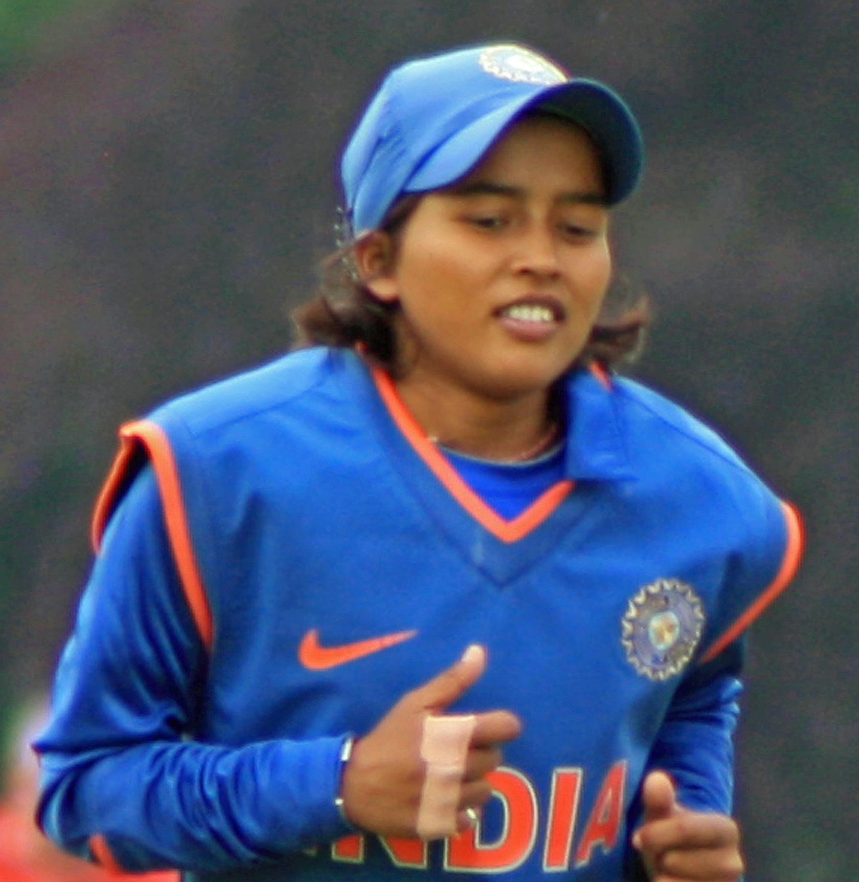 Ekta Bisht in the field for India during their fourth ODI against England at Boscawen Park, Truro.